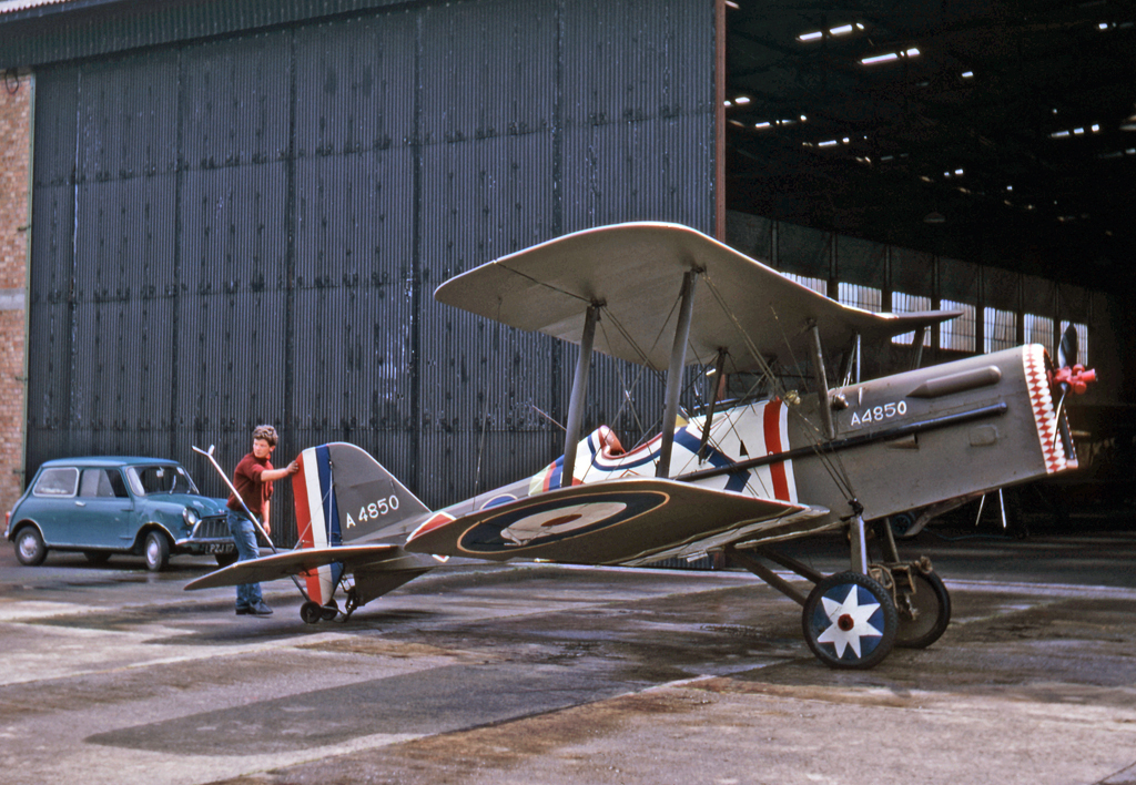 Full scale replica Royal Aircraft Factory S.E.5a built by Miles Engineering in 1965 for film work